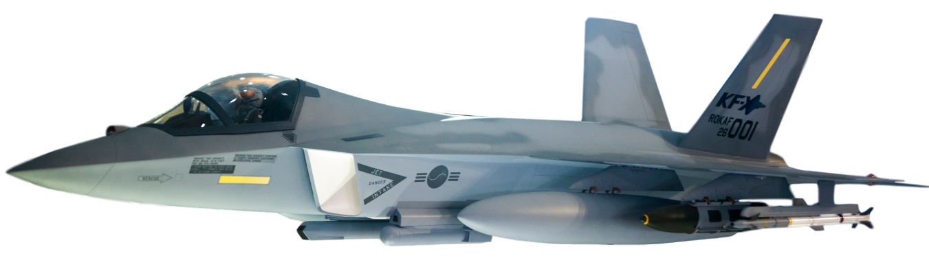 KAI KF-X model, background clipped